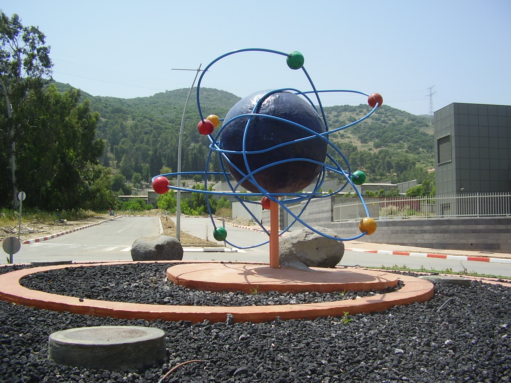 High-Tech Park, Yokneam